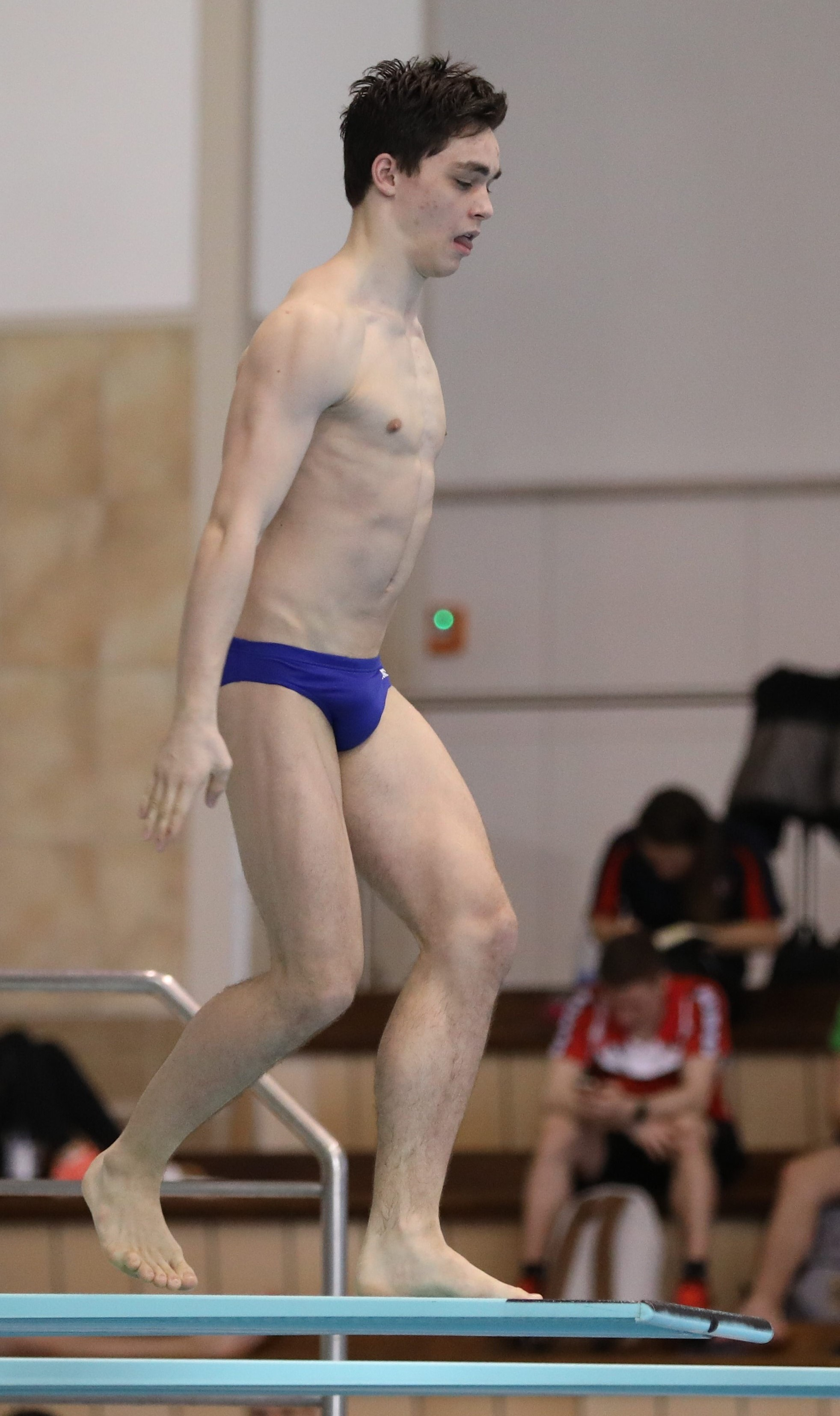 3m male finals at International German Diving Championships Rostock 2018